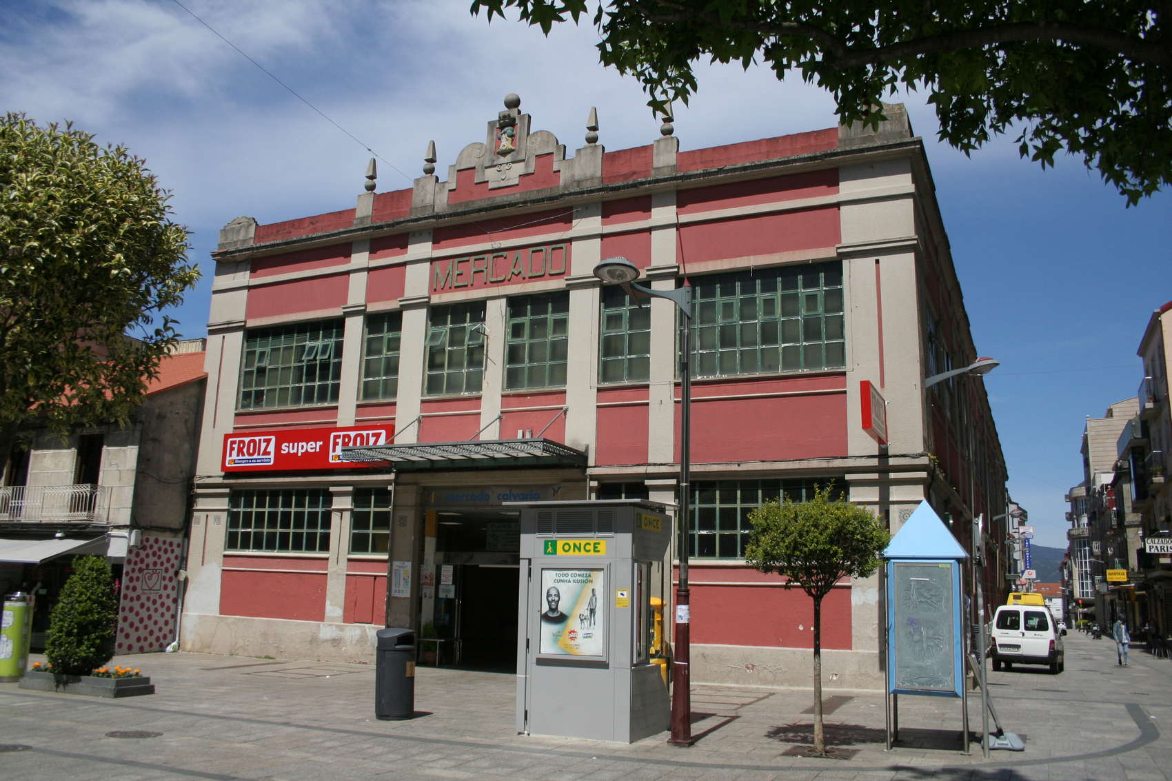 Market Hall in Vigo (Spain)